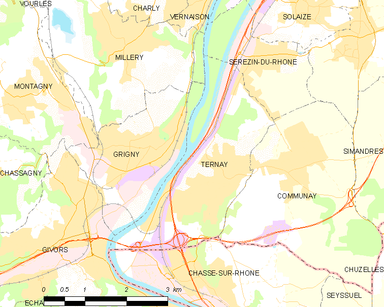 Map of French municipality